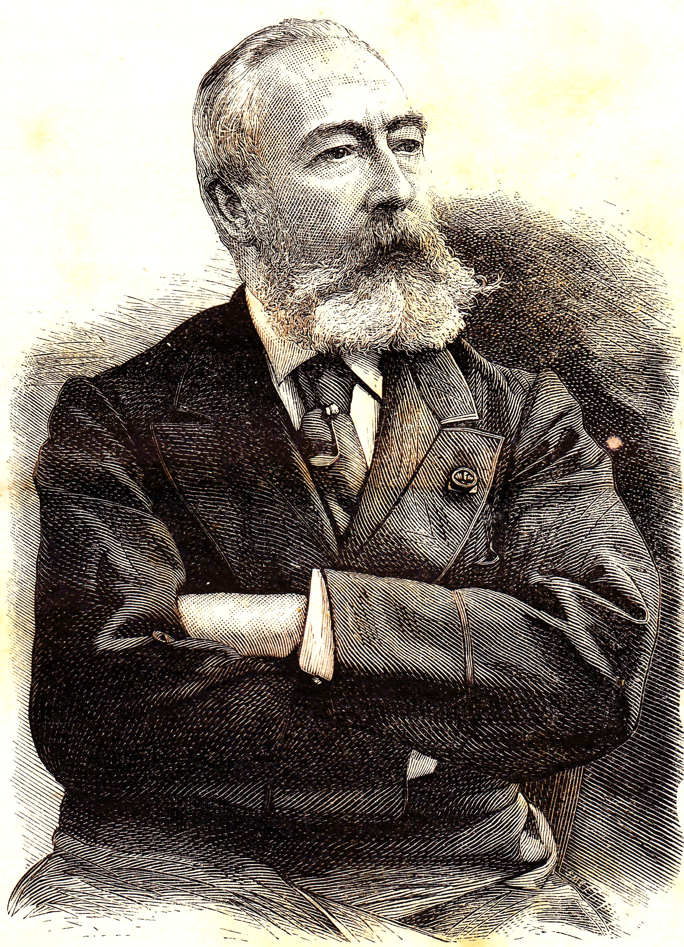 Portrait of H.F.C. ten Kate.